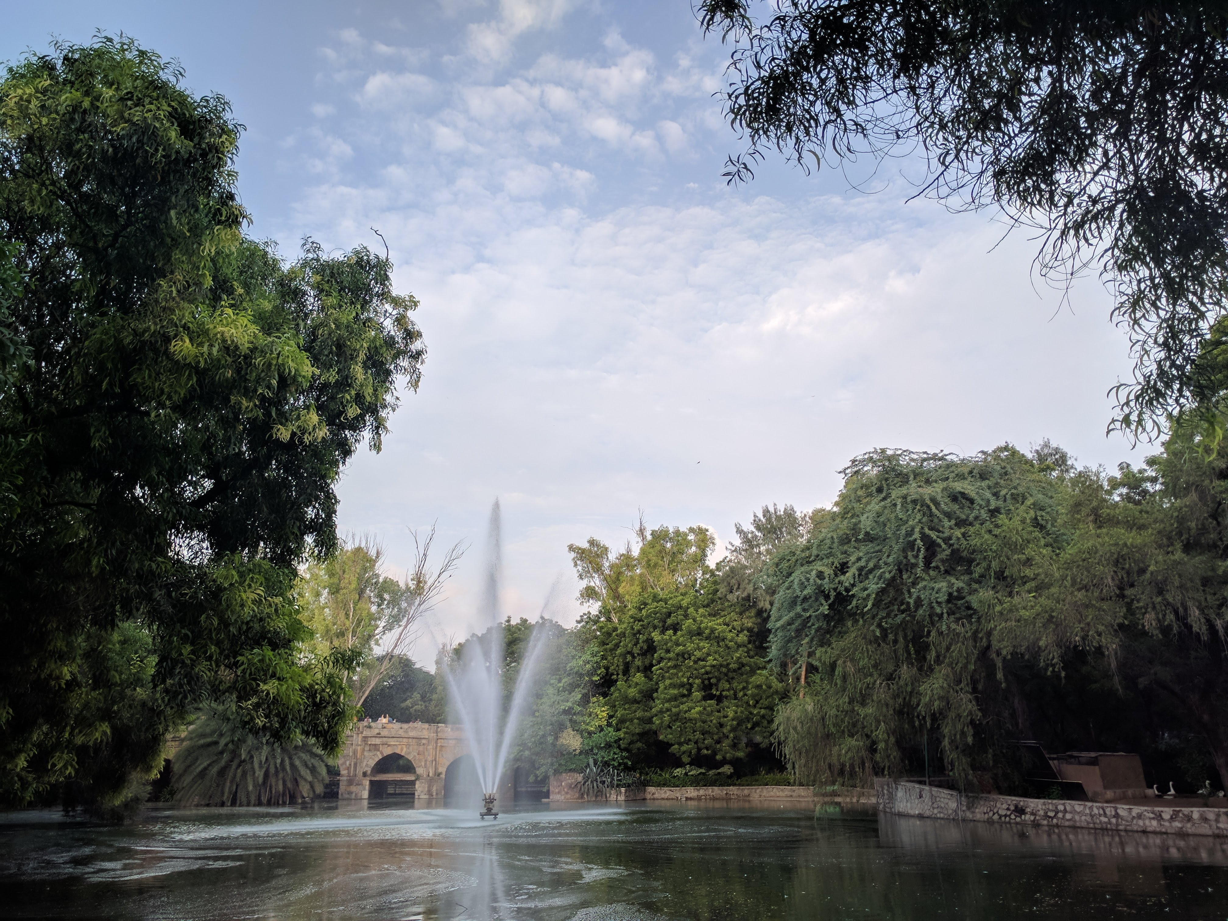 Lodi Gardens Fountains